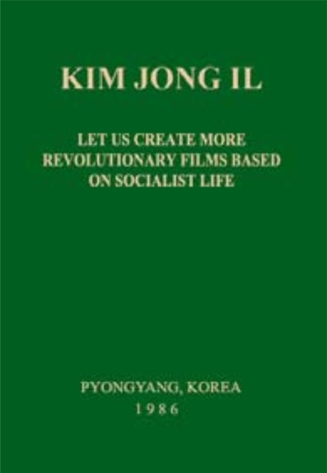 Let us create more revolutionary films based on socialist life (1985 [1970]) by Kim Jong-il